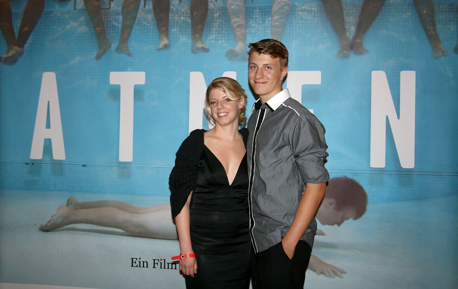 Leading actress Karin Lischka and leading actor Thomas Schubert at the Austrian premiere of Karl Markovics' movie Breathing at the Kursalon Hübner in Vienna.